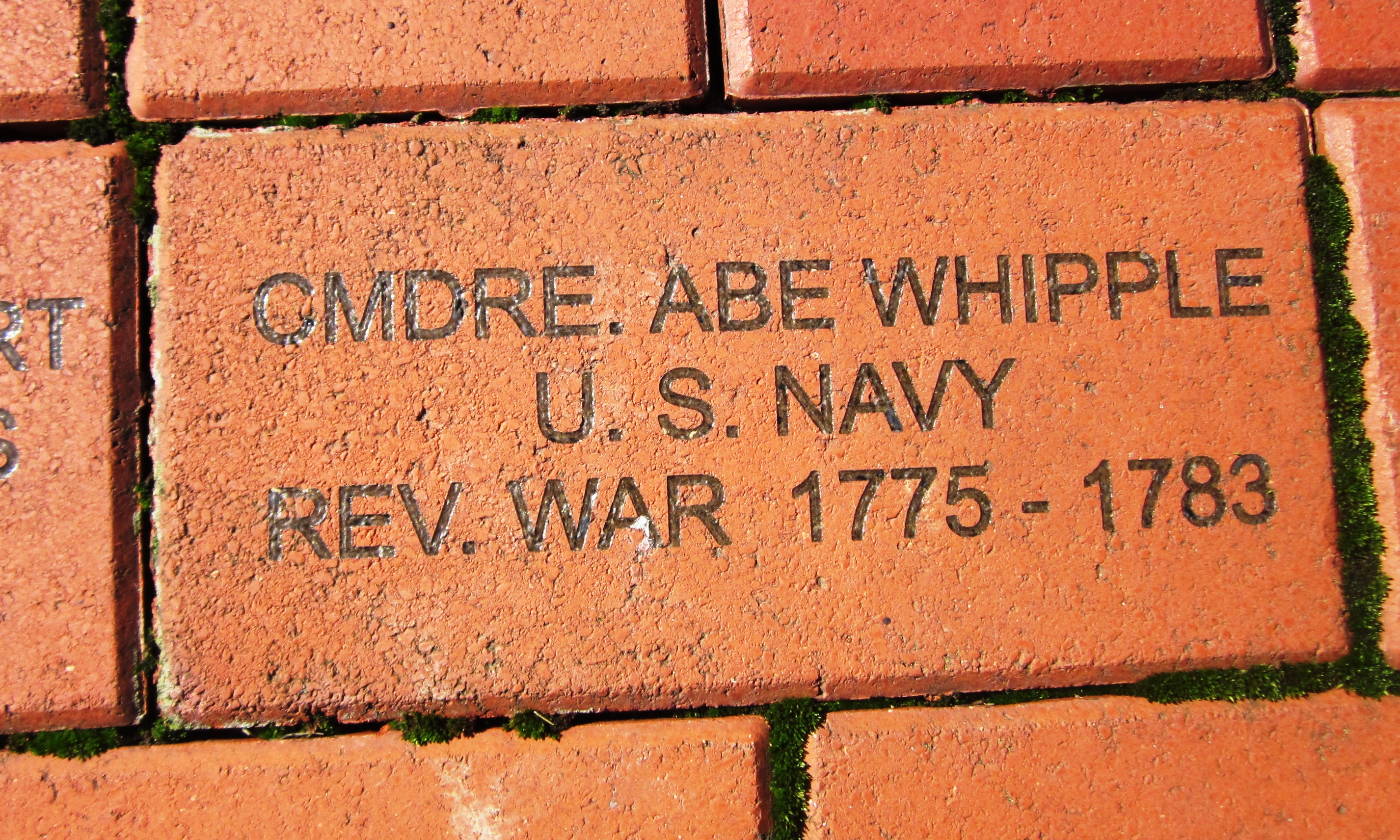 Abraham Whipple brick, located on the Veterans Walk of Honor adjacent to the Ohio National Guard Armory on Front Street in Marietta, Ohio, September 2015. I took this photo, and I release to the public domain. ColWilliam (talk) 09:23, 23 September 2015 (UTC)